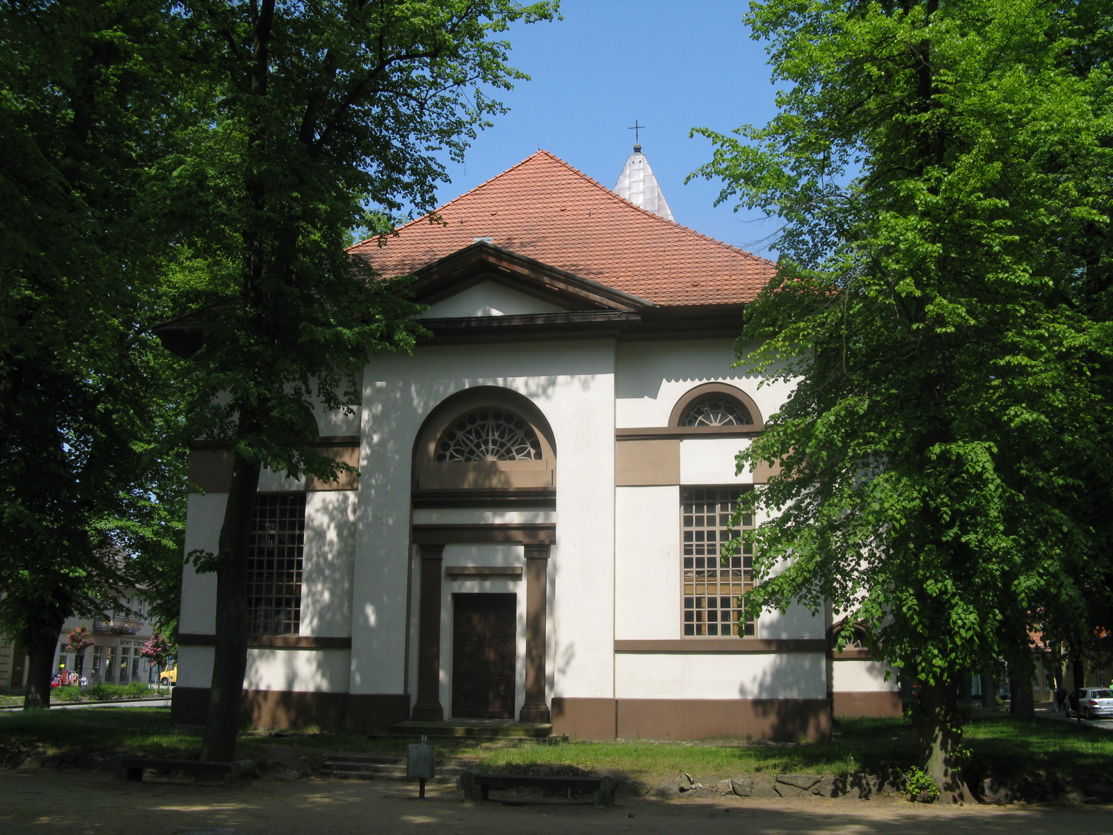 Church in Lübtheen, district Ludwigslust-Parchim, Mecklenburg-Vorpommern, Germany